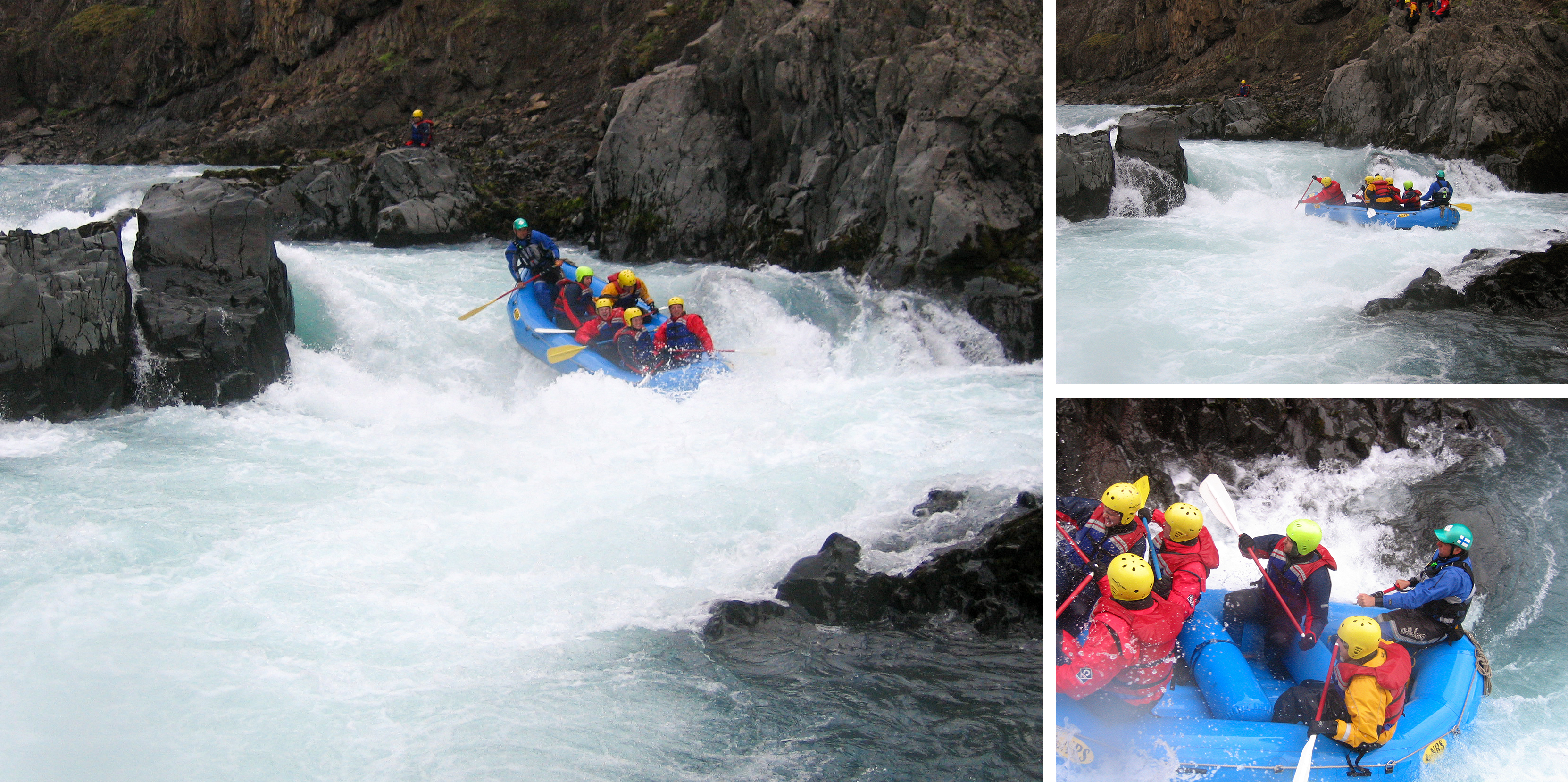 The most difficult part of the ride. Three quick rapids right after each other (category 4+). First boat came nicely through.